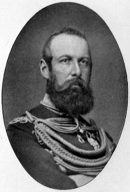 Charles XV of Sweden